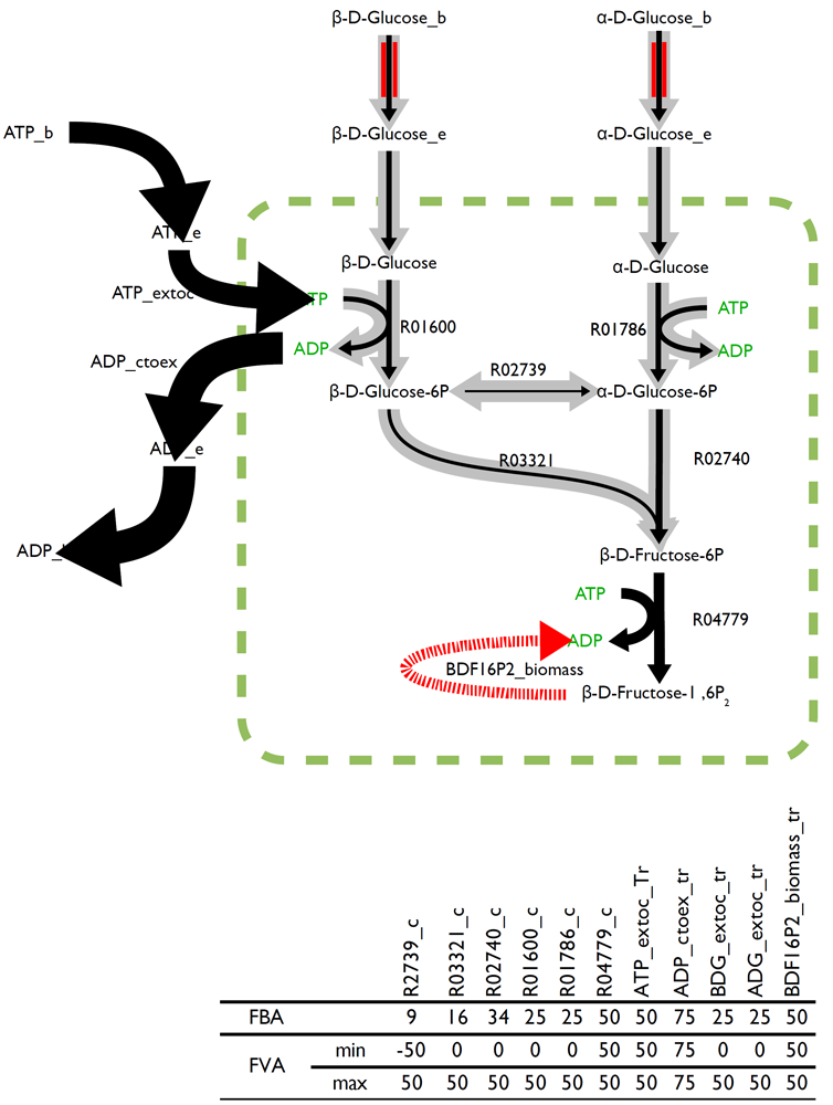 Visual representation of flux-variablity analysis (FVA) performed on the top six reactions of glycolysis as used for examples on main FBA page. Restriction on the direction (forward) of R03321 and R02740 are included and simulation conducted with SurreyFBA. Variability of fluxes (in light grey) shown at four times width with chevrons noting possible direction of flow (note R02739).